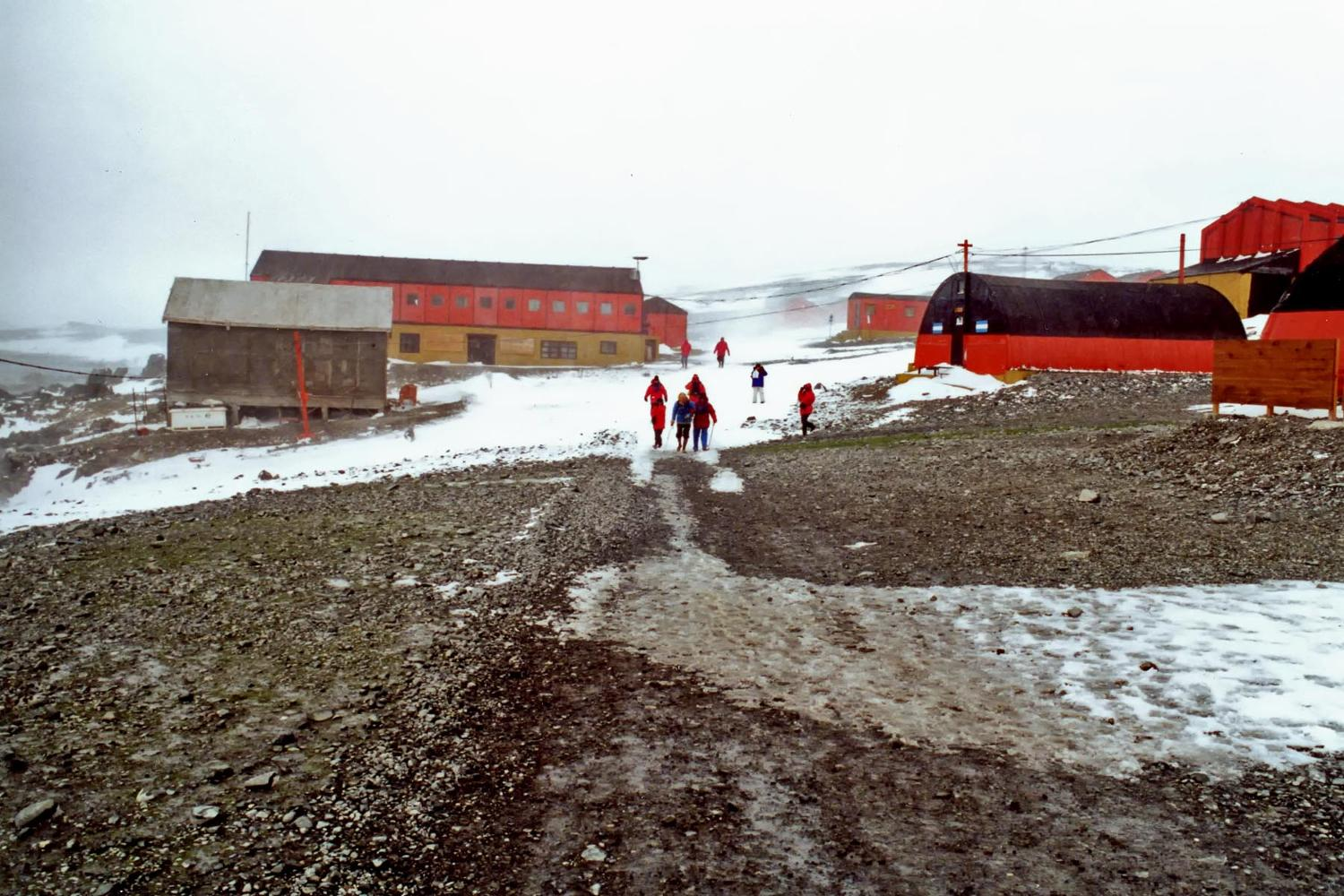 Cruise participants visiting the Argentine base Esperanza on the Antarctic Peninsula.